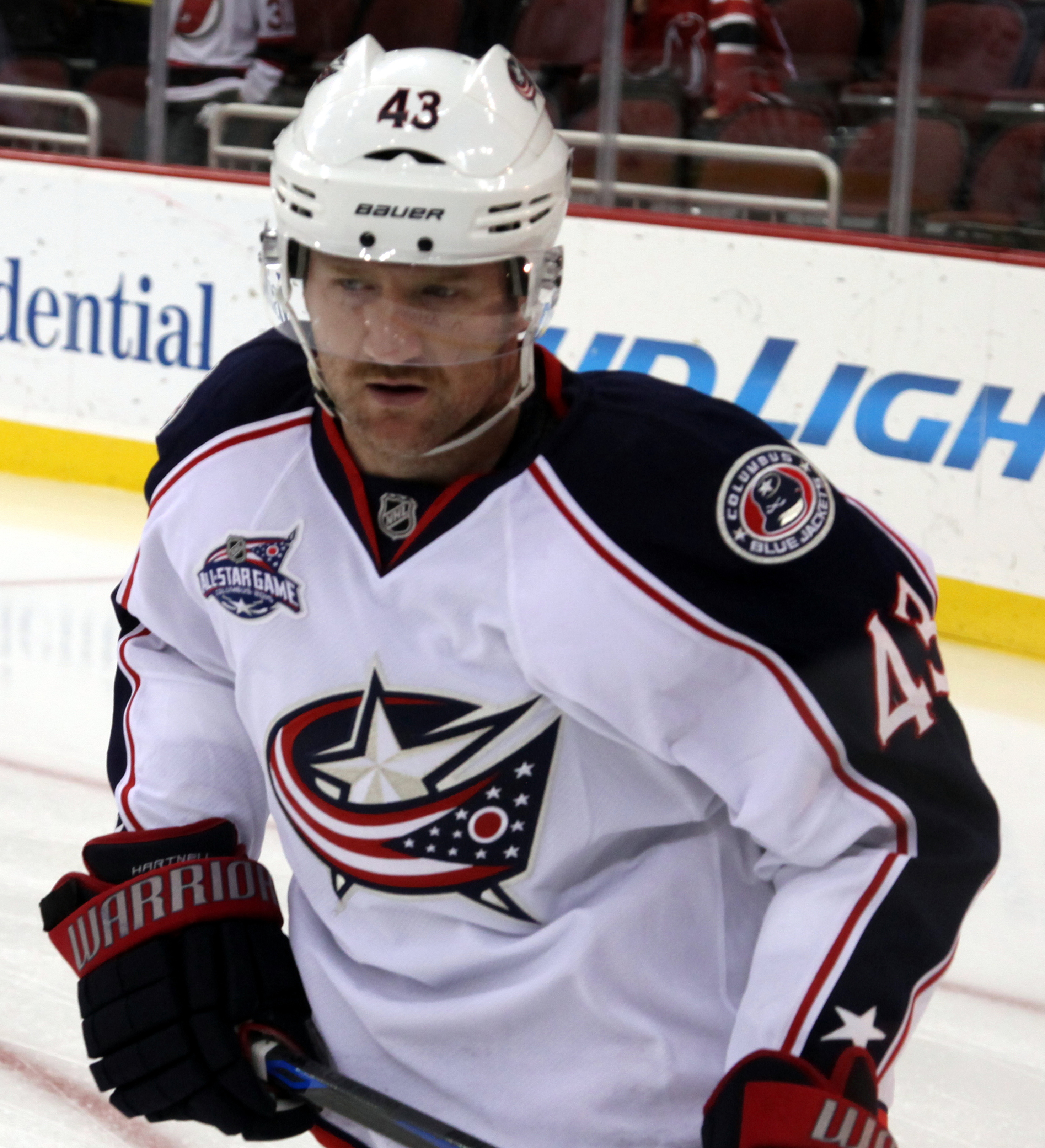 Scott Hartnell in November 2014.